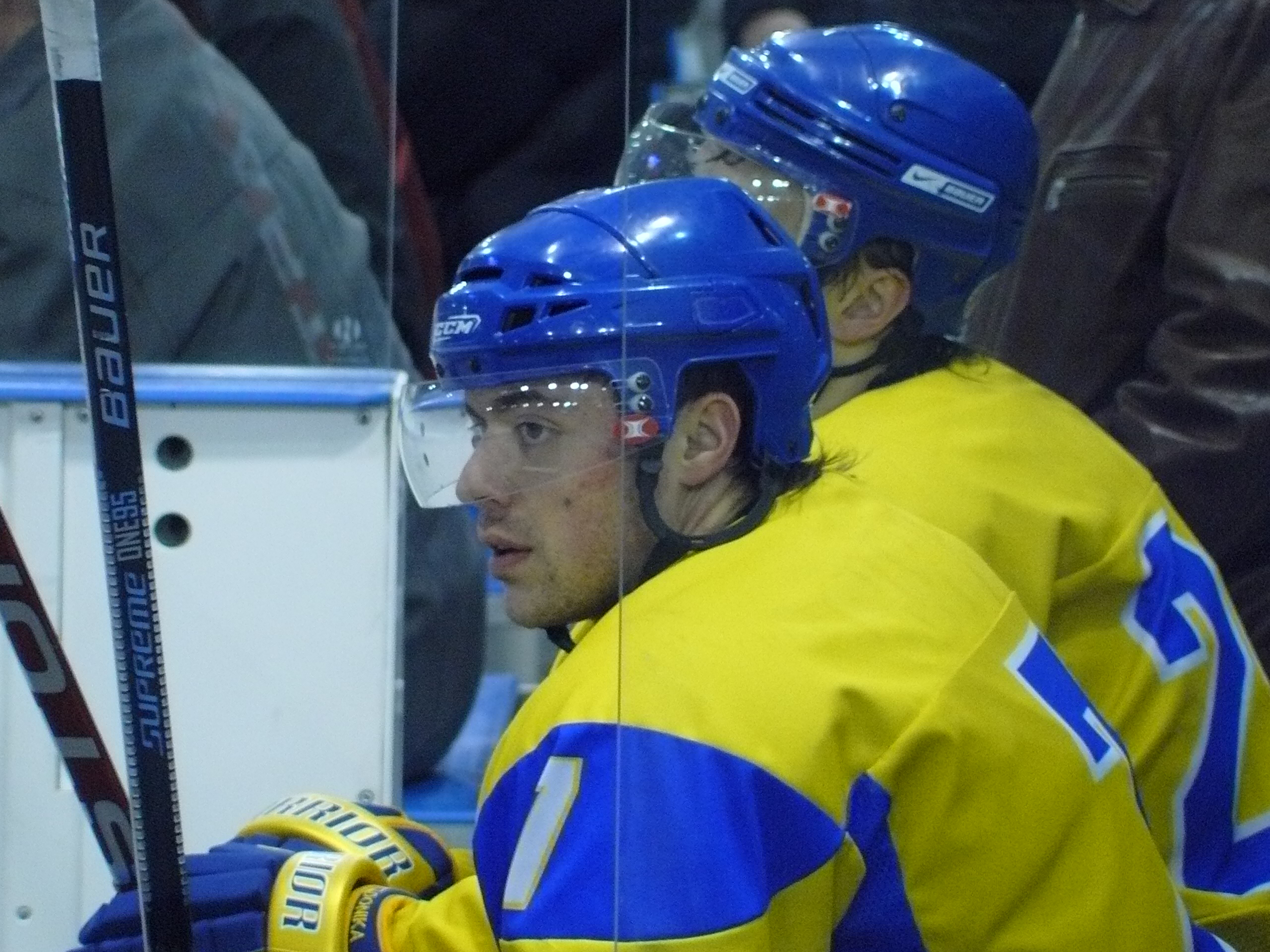 Forward Oleg Shafarenko #7 of the Ukraine sits in the penalty box during the friendly game against the Poland on April 10, 2010 at the Terminal Arena in Brovary, Ukraine. Ukraine won the game 2:1.